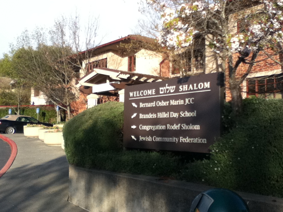 View of the Osher Marin Jewish Community Center.